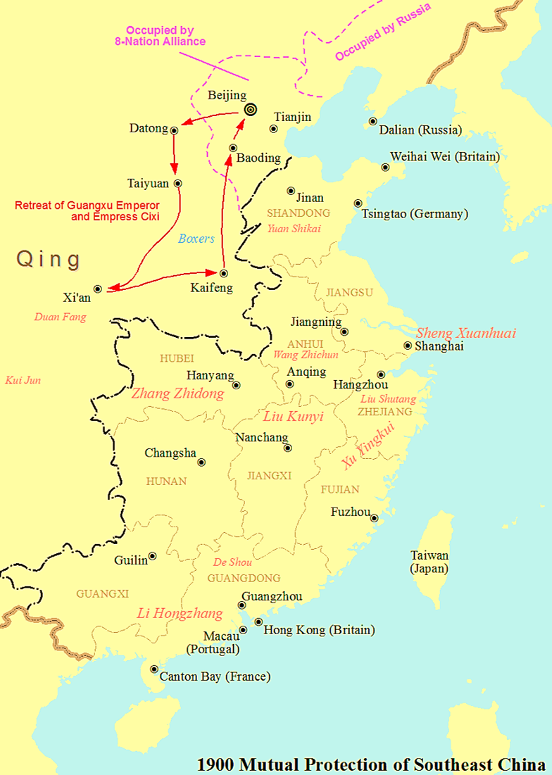 The situation of Mutual Protection of Southwest China in Qing dynasty, 1900.